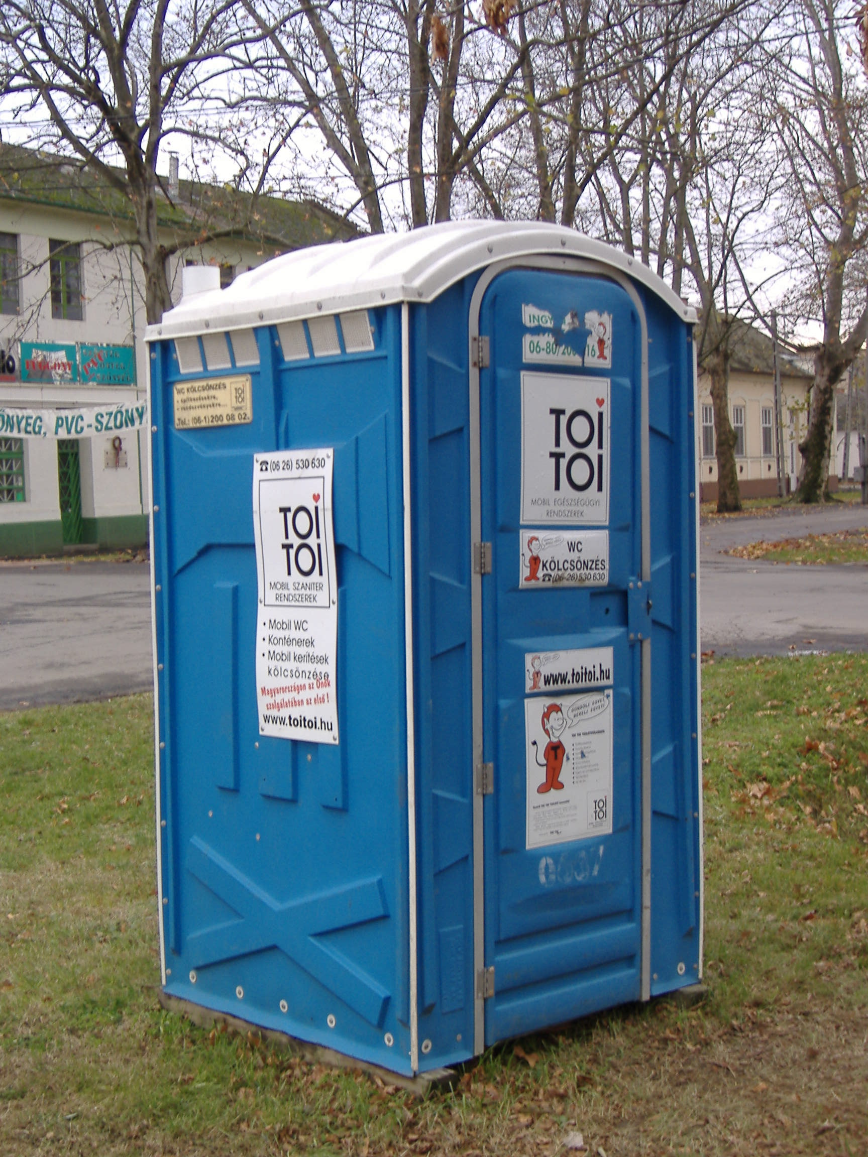 Portable toilet in Makó, Hungary.